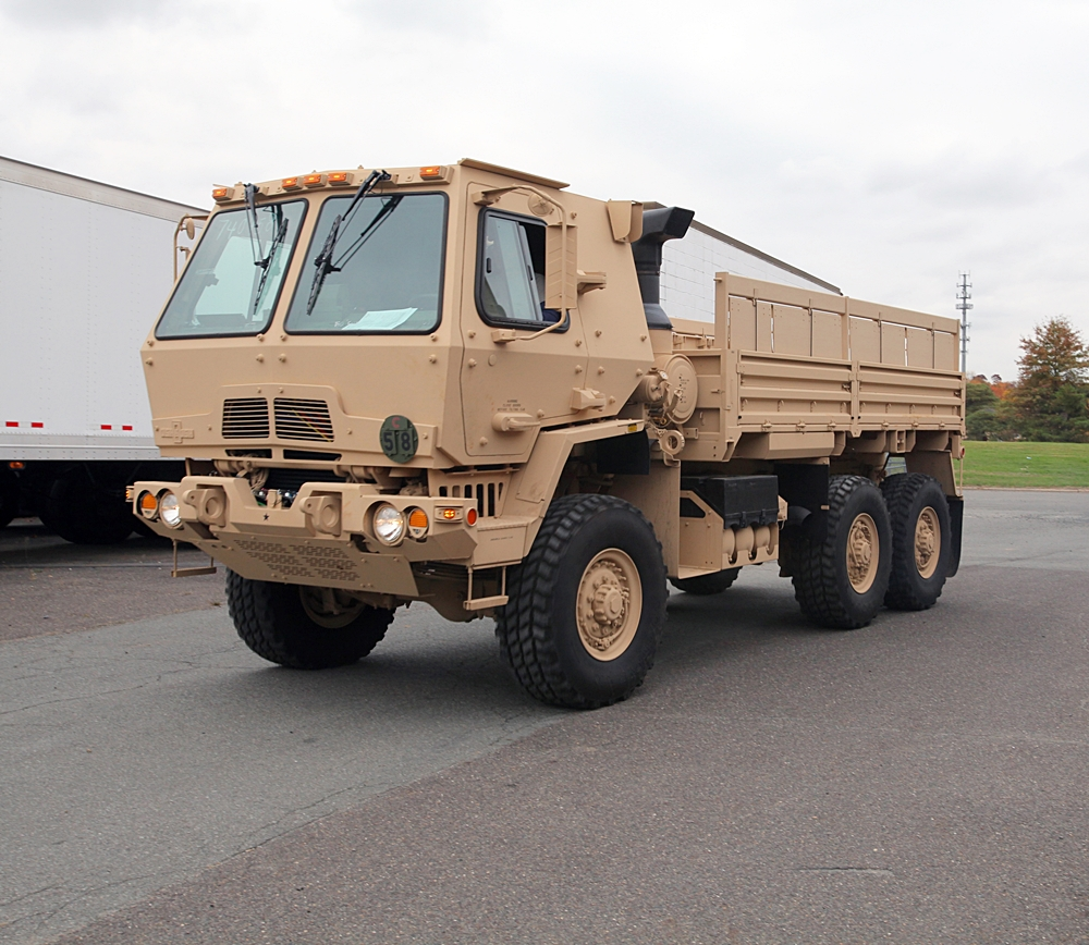 Medium tactical vehicles with the New Jersey Army National Guard are brought in to Lawrenceville, N.J., as the New Jersey National Guard prepares for Hurricane Sandy Oct. 26, 2012. (U.S. Air Force photo by Master Sgt. Mark C. Olsen/Released)